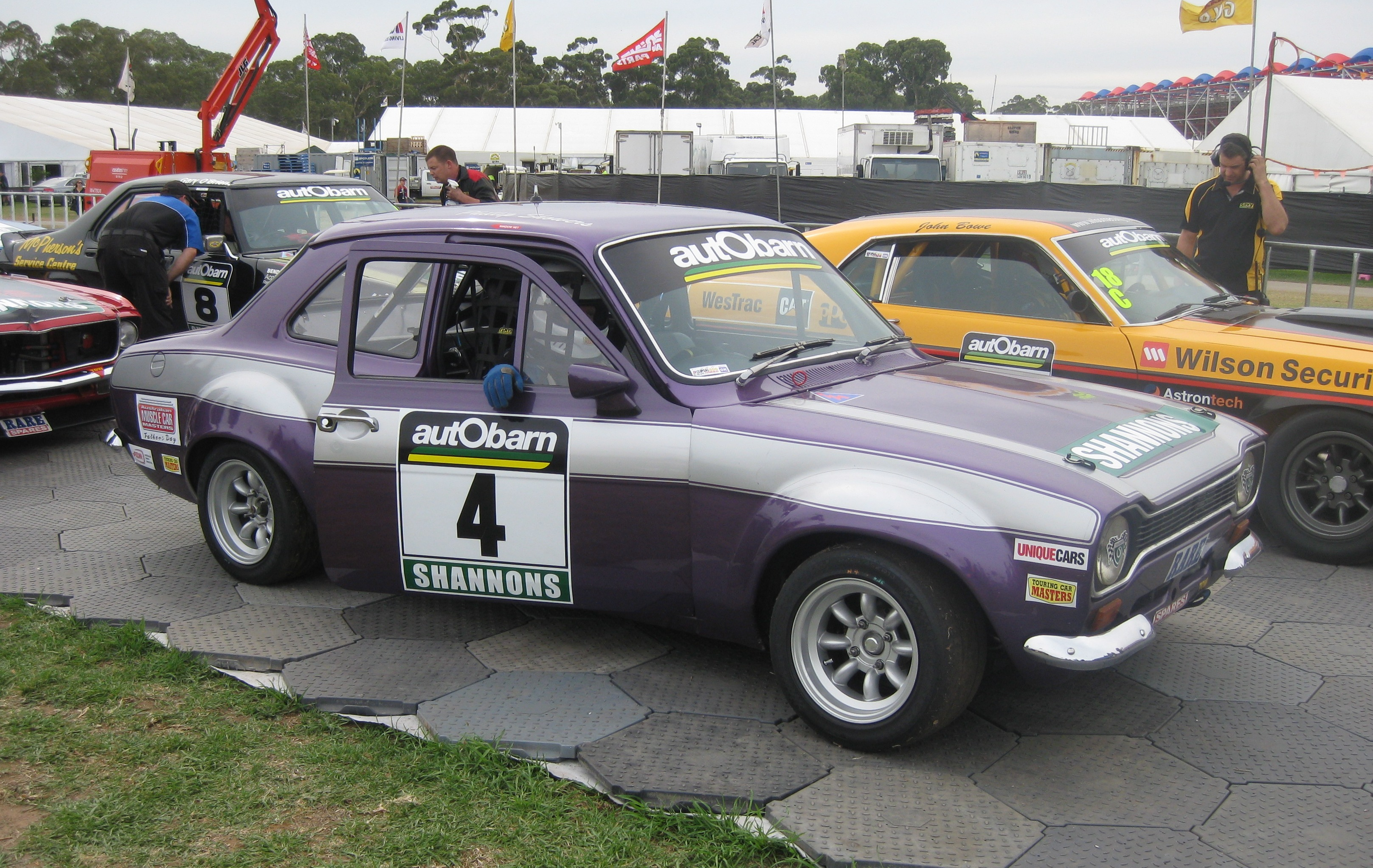 The Ford Escort RS1600 of Phillip Showers at the Adelaide Parklands Circuit for the opening round of the 2011 Touring Cra Masters